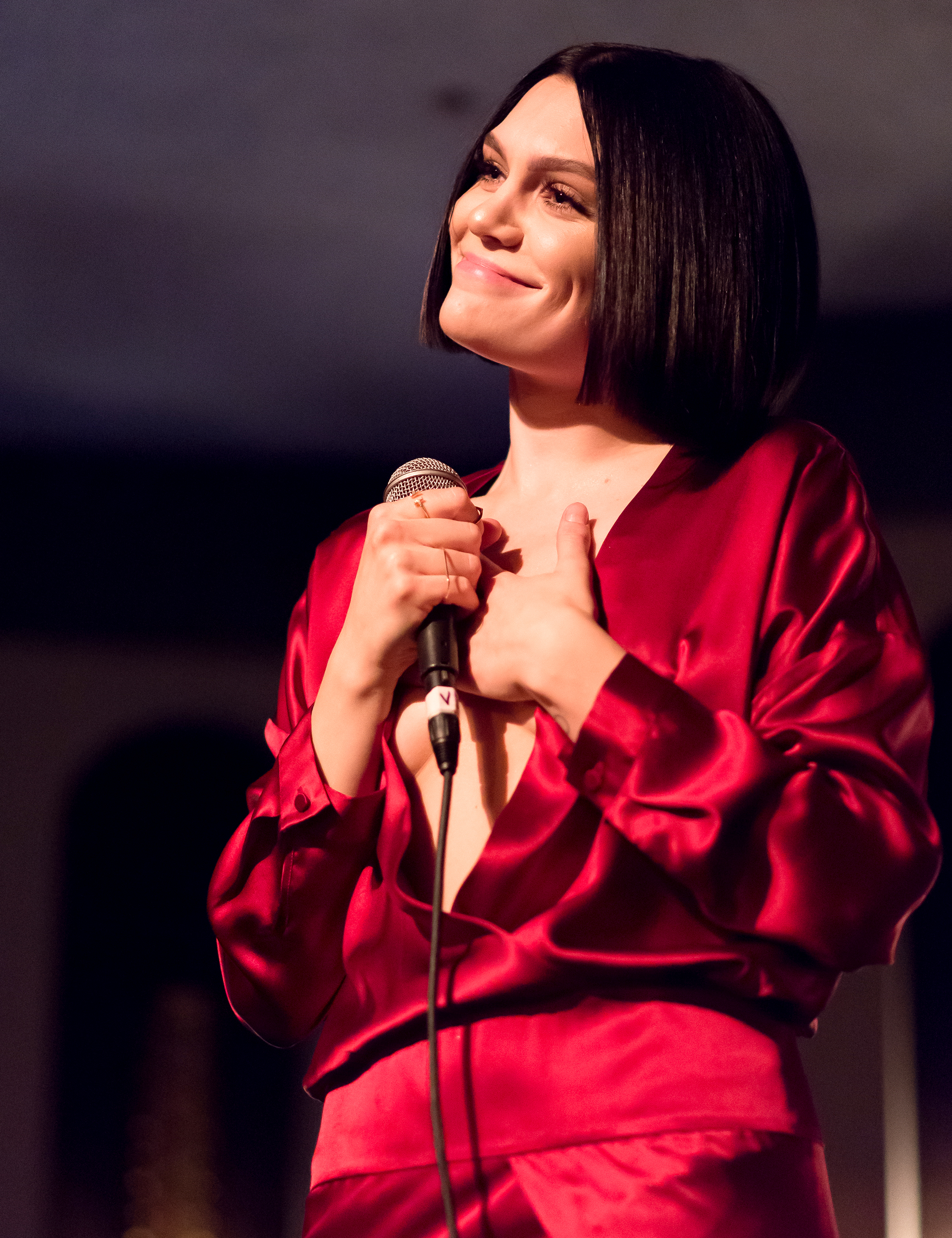 Jessie J performing live at The Peppermint Club in Los Angeles, California, on Sunday, December 17, 2017.